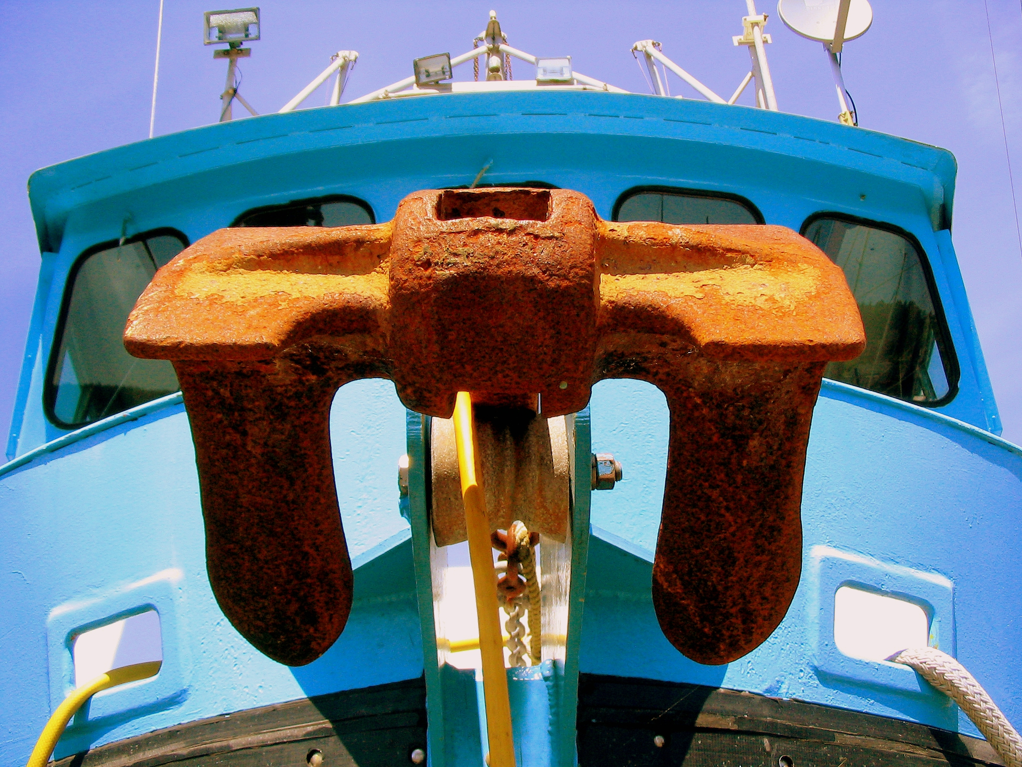 A rusty boat anchor at Stilbaai, Western Cape, South Africa.